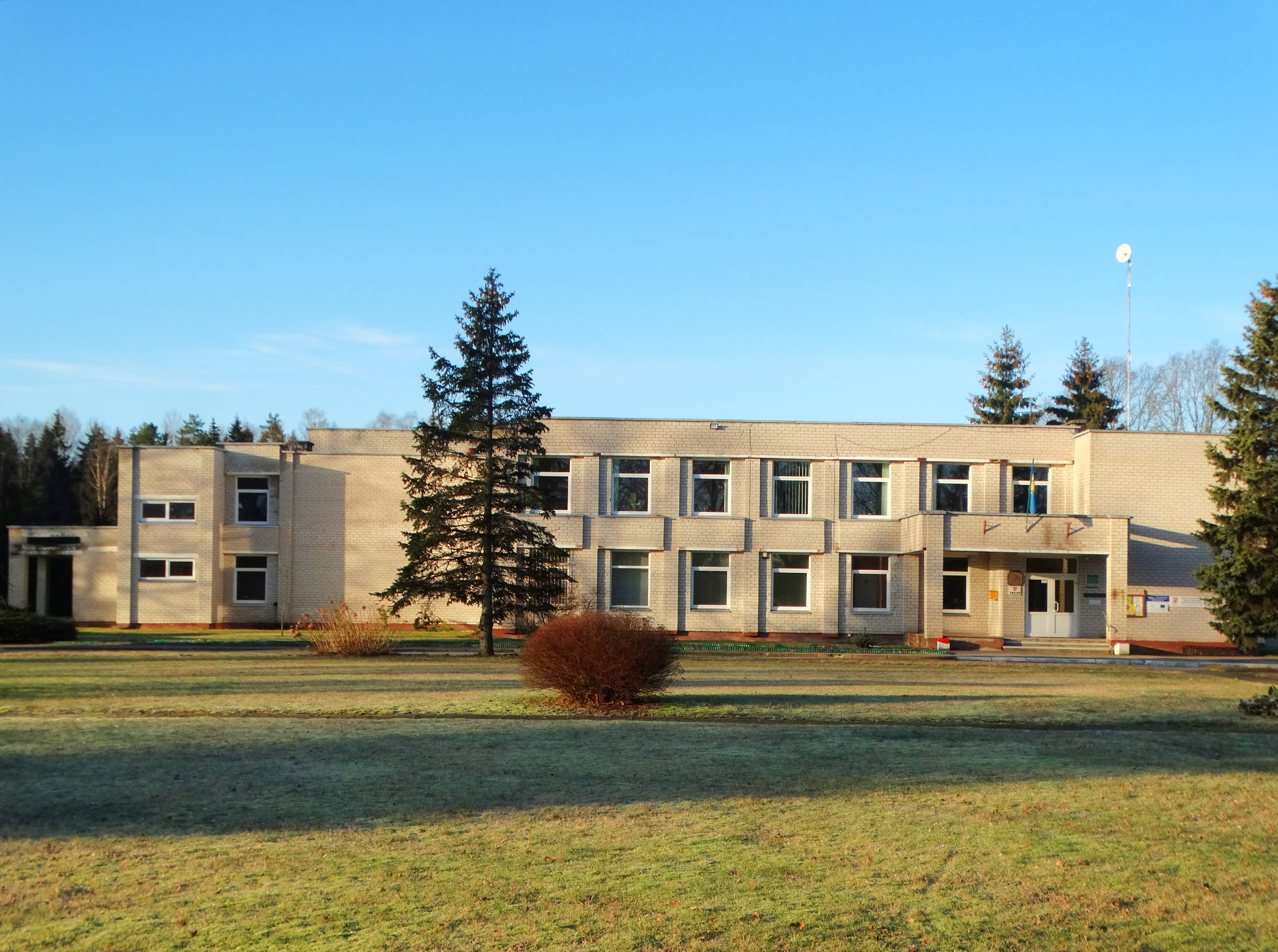 Centre of culture, Stalgėnai, Plungė district, Lithuania